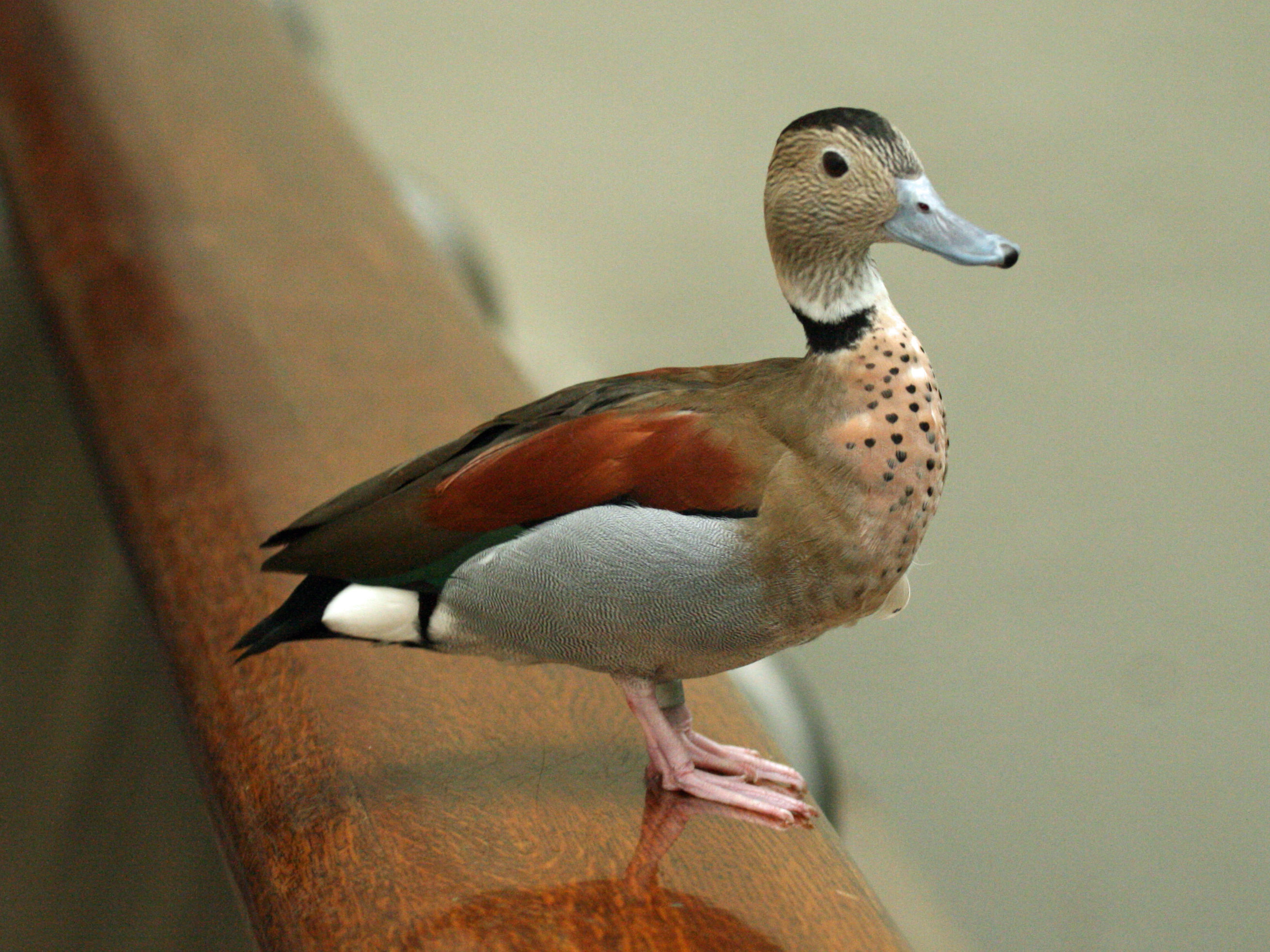 Ringed Teal (Callonetta leucophrys) at Washington National Zoo